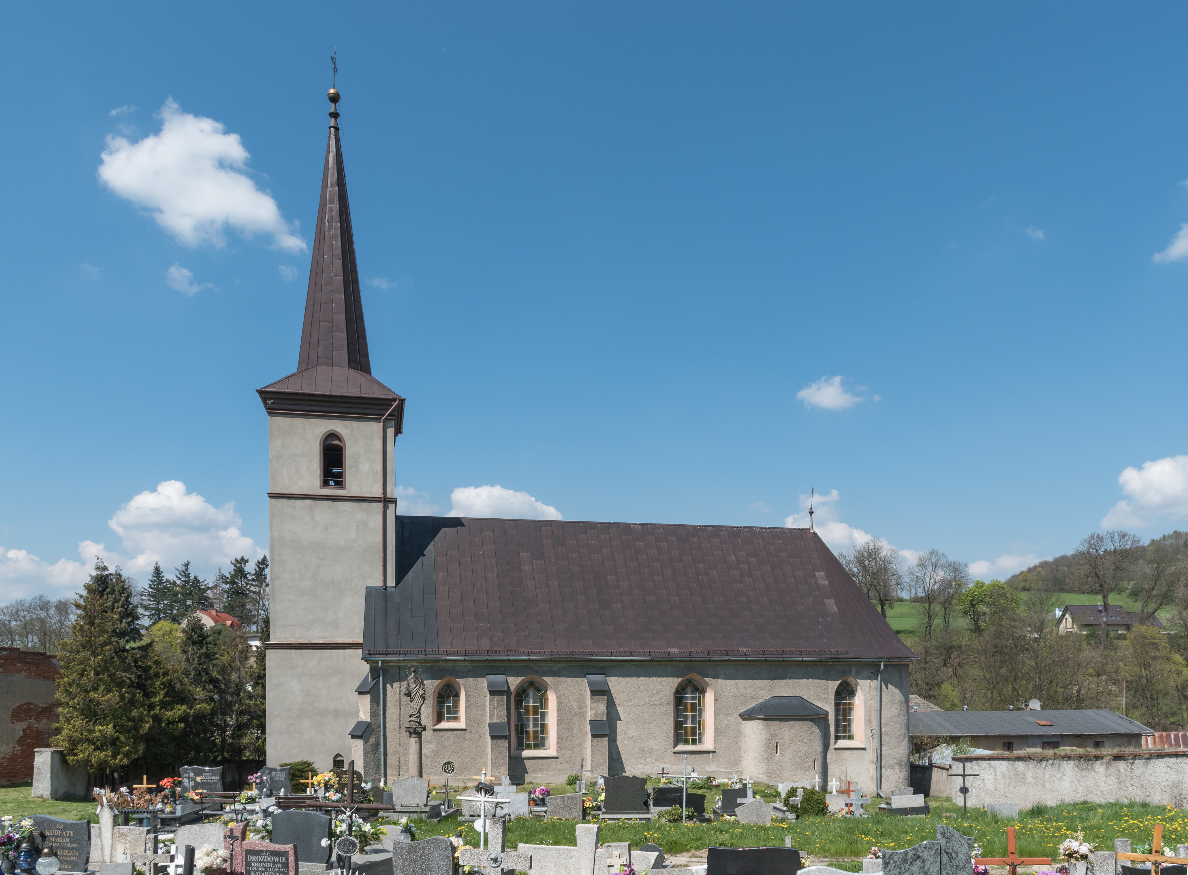 Church of St. Michael the Archangel in Wojciechowice